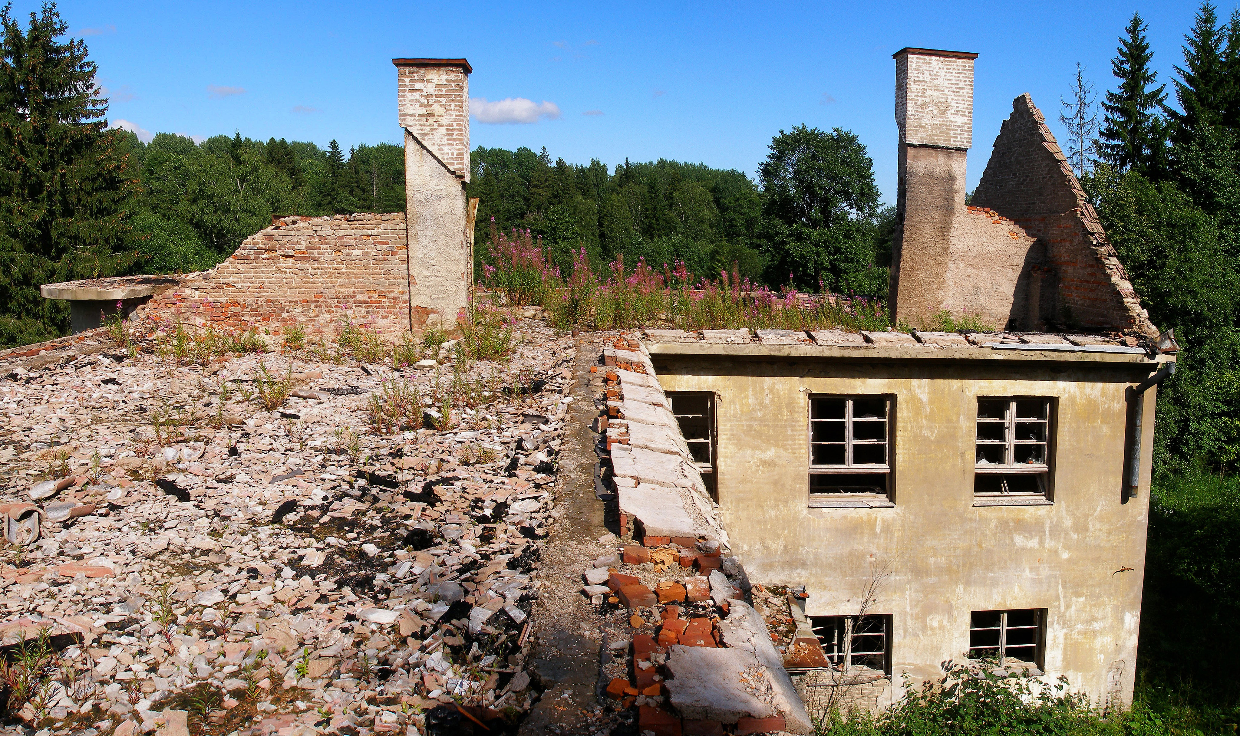 The roof of a derelict schoolhouse in Peressaare, Ida-Virumaa, Estonia.